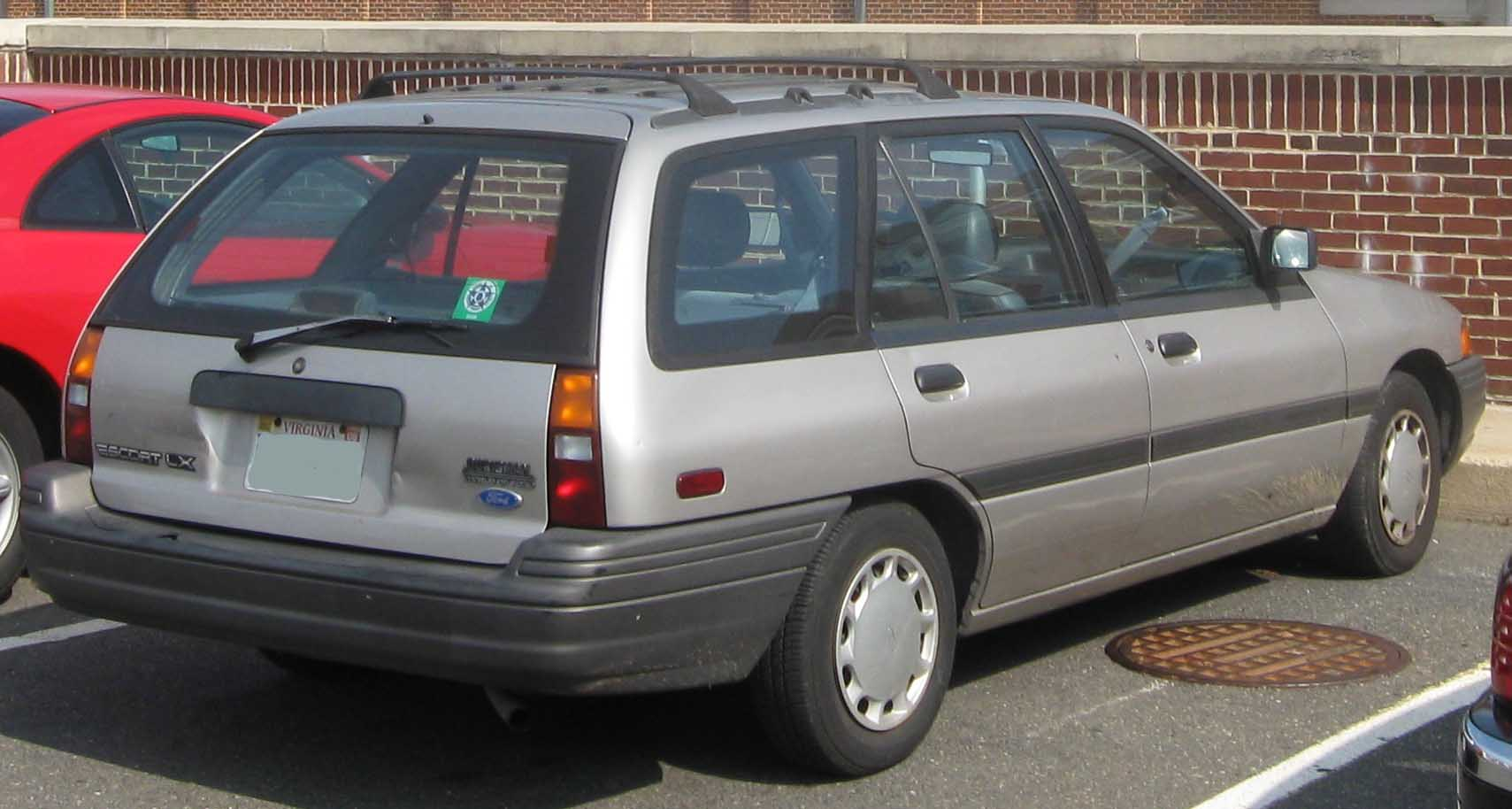 1991-1992 Ford Escort photographed in College Park, Maryland, USA.